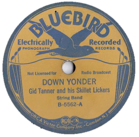 Down Yonder by Gid Tanner and his Skillet Lickers, Bluebird Records 1934.